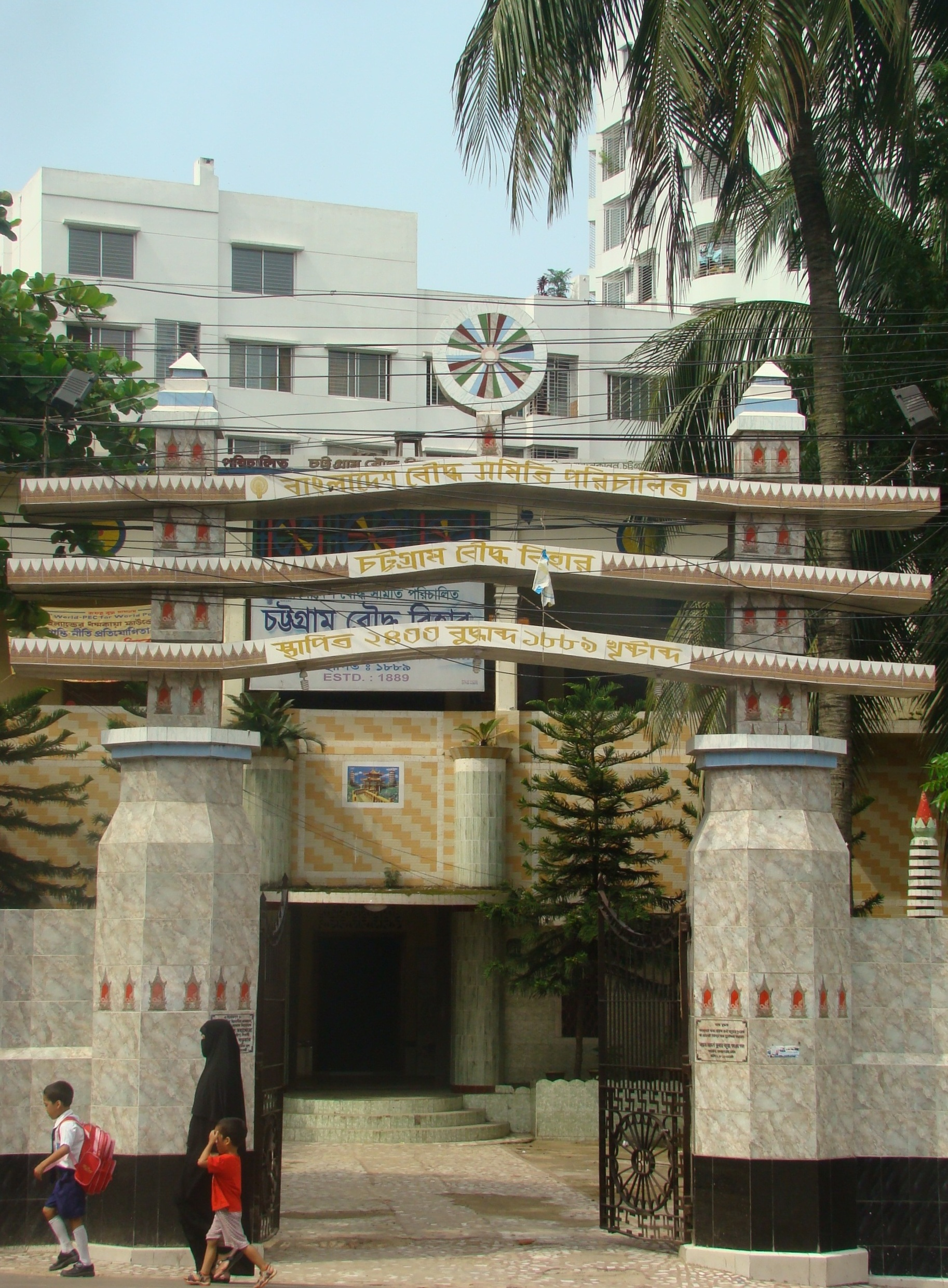 বিহারের মূল ফটক